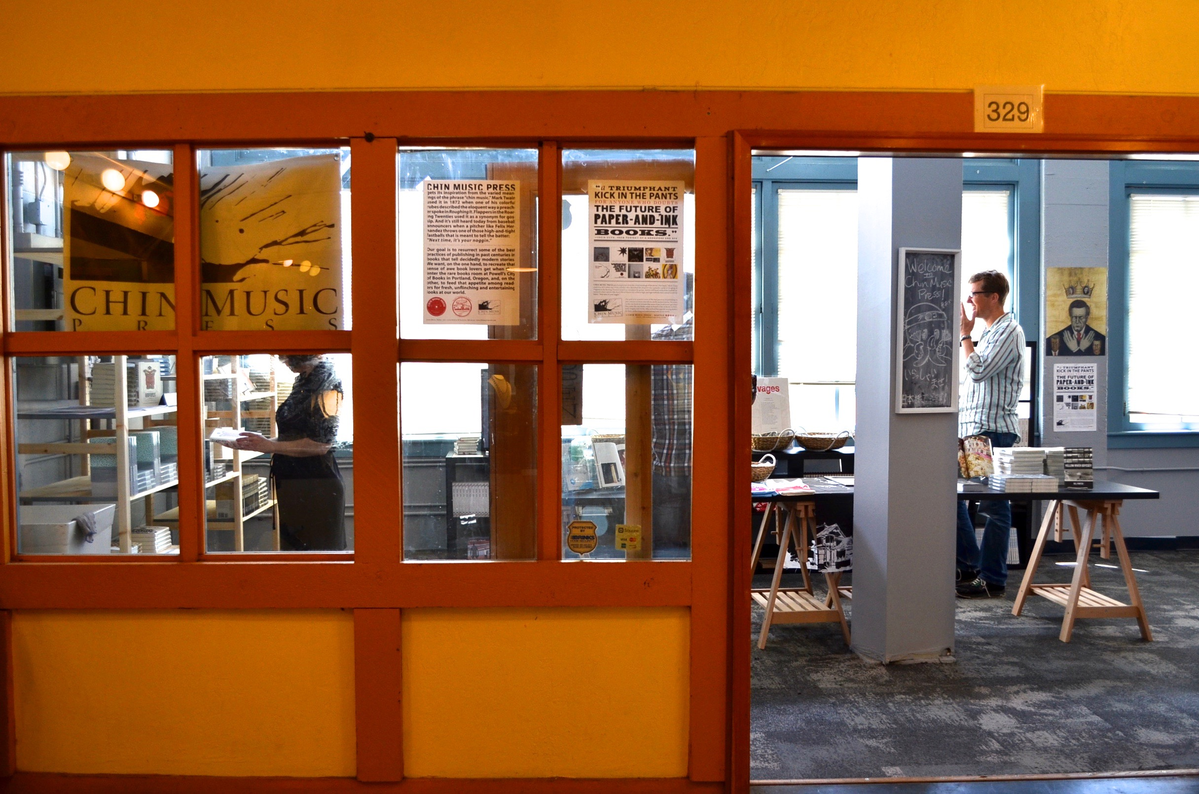 This image shows the outside view of Chin Music Press's store location in the Pike Place Market.